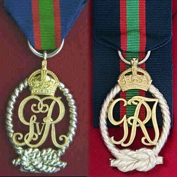 The King George V and first King George VI versions of the Decoration for Officers of the Royal Naval Volunteer Reserve with the three-colour ribbon of 1919